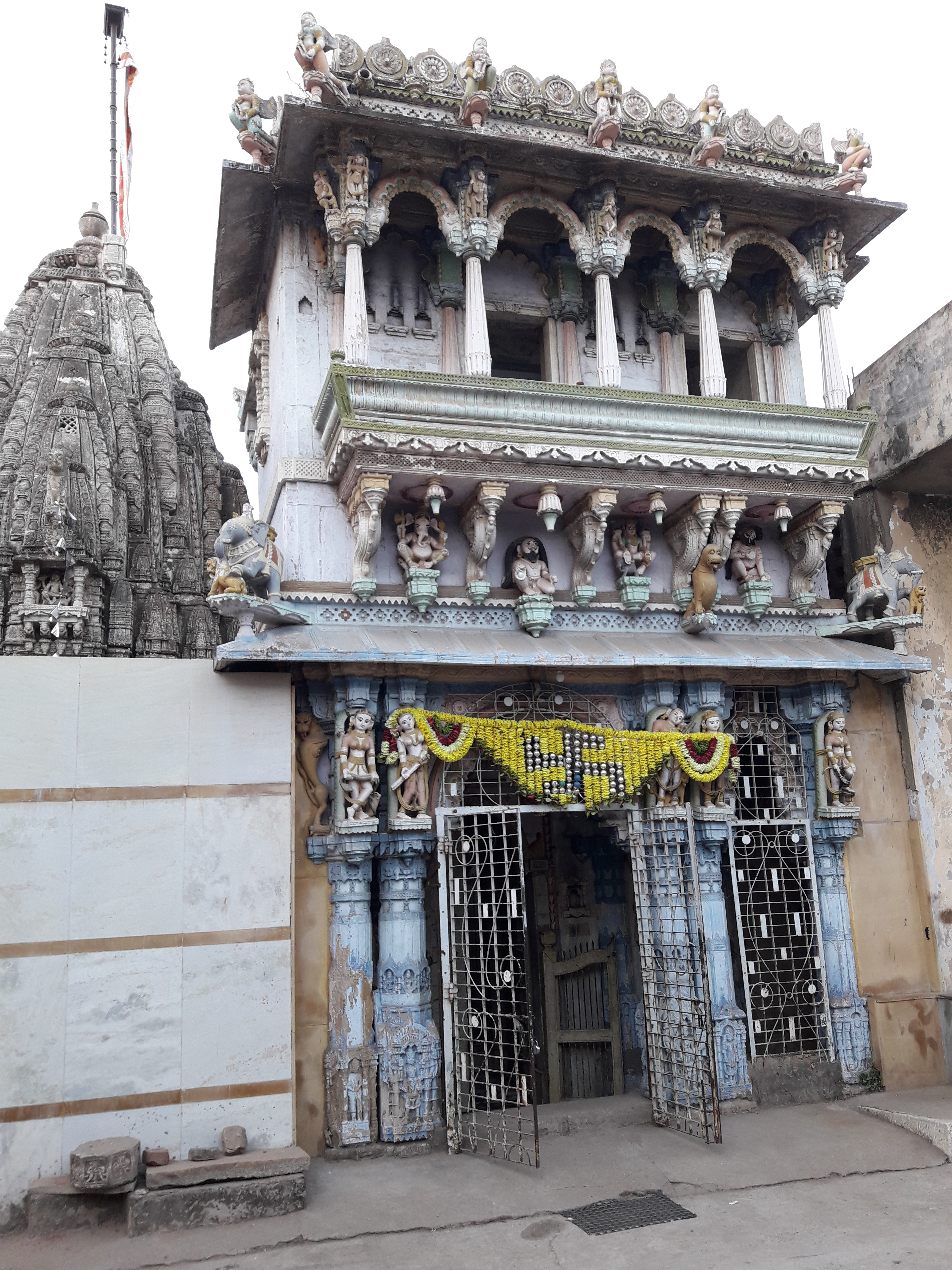 Harshiddha Mata Temple of Himatnagar, Gujarat, India.